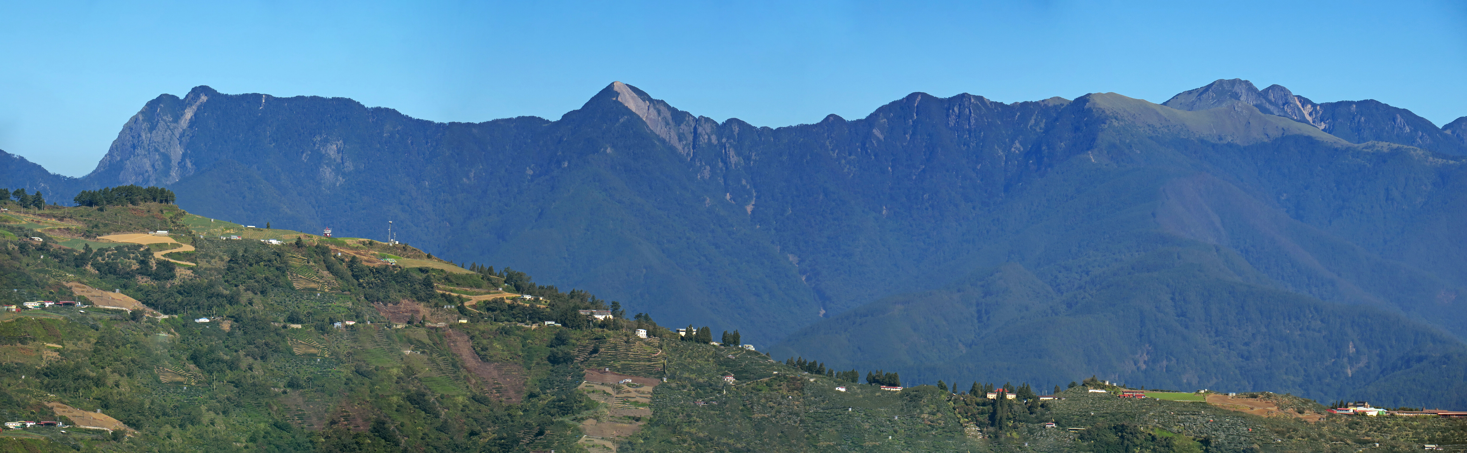 Mountain range of Mt.Dajian-Mt.Jiayang-Mt.Jian